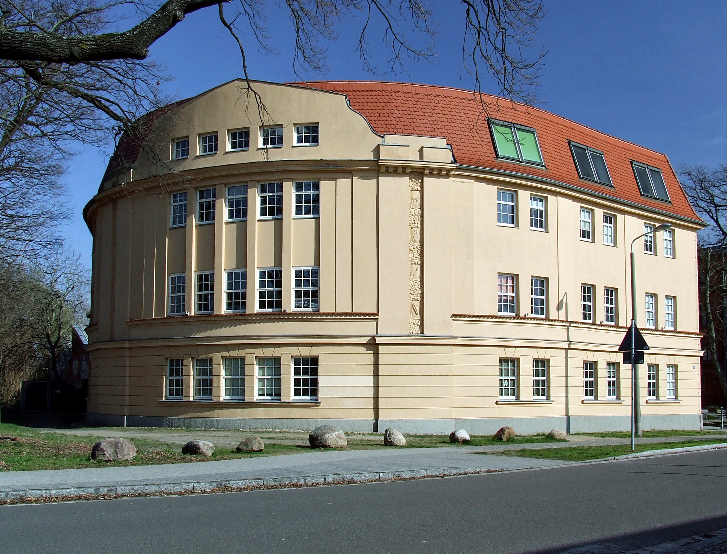 Former cloth factory Textor & Prochatschek, Parzellenstraße 10 in Cottbus-Spremberger Vorstadt which houses the Cottbus branch of Deutsches Erwachsenen-Bildungswerk. Shown here is Haus A from the north.